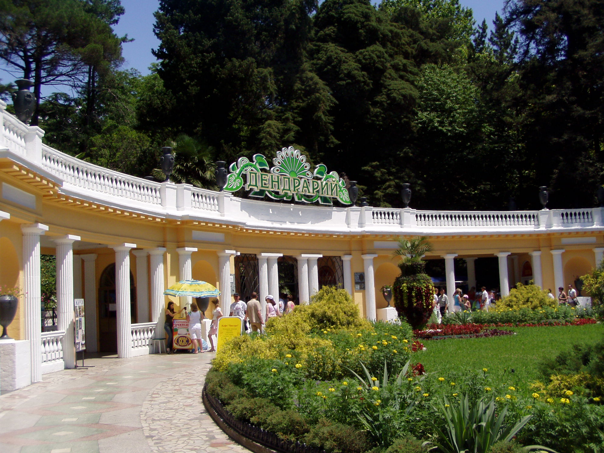 Sochi Arboretum — main entrance pavilion. Located in Sochi, southwestern Russia.